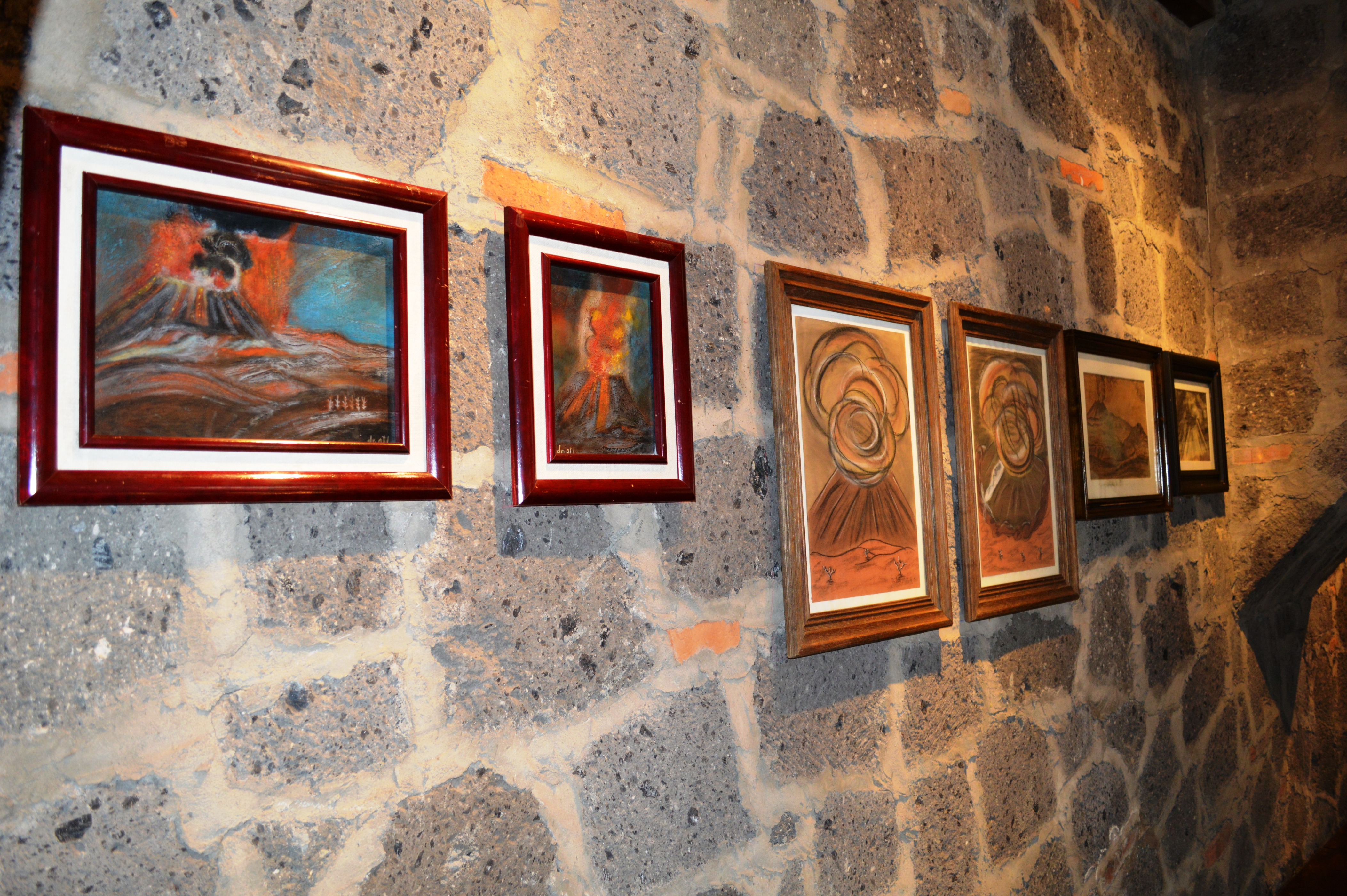 Works by Dr Atl at the dining hall of the Hacienda Santa Clara Study and Research Center in San Miguel Allende, Mexico